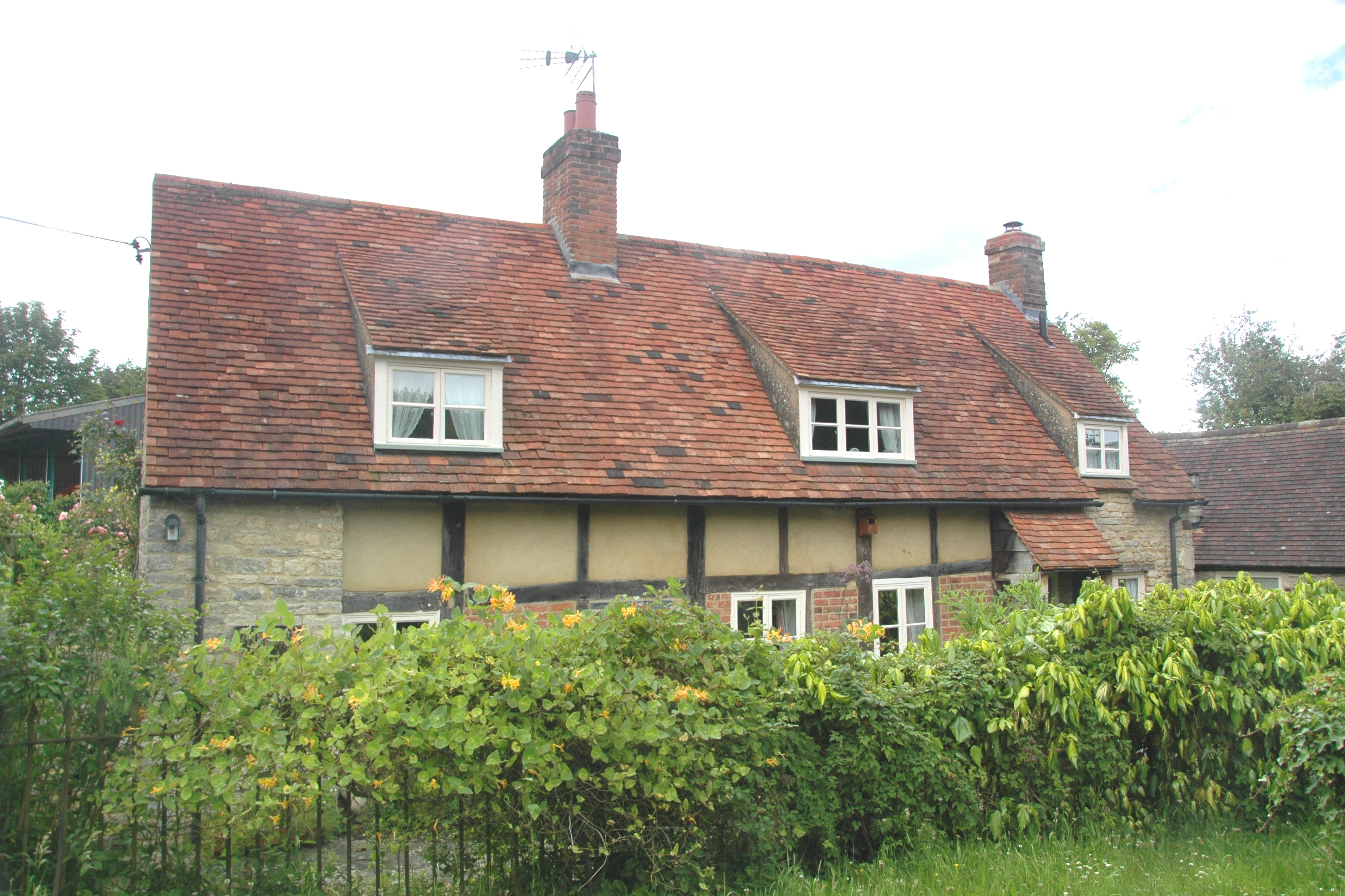 Church Cottage, Thame Road, Piddington, Oxfordshire: View from the east.